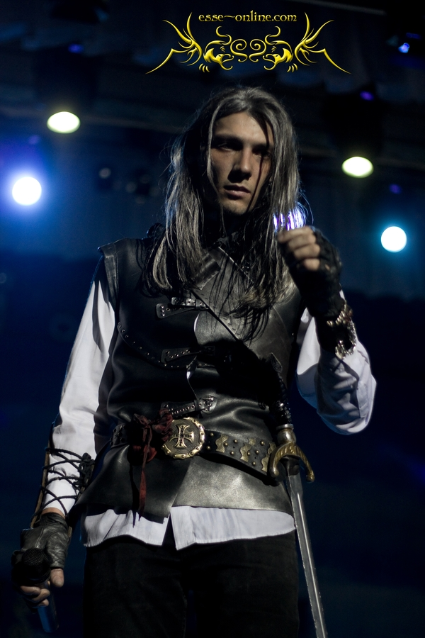 Vyacheslav Mayer (Geralt of Rivia, Witcher, Gwynbleidd, Vatt’ghern). Rock-opera "Road without return" of group "ESSE", based on the saga of A. Sapkowski "The Witcher". Scene 4. "Geralt". Photo from an ESSE group concert in Rostov-on-Don 10.04.2010.